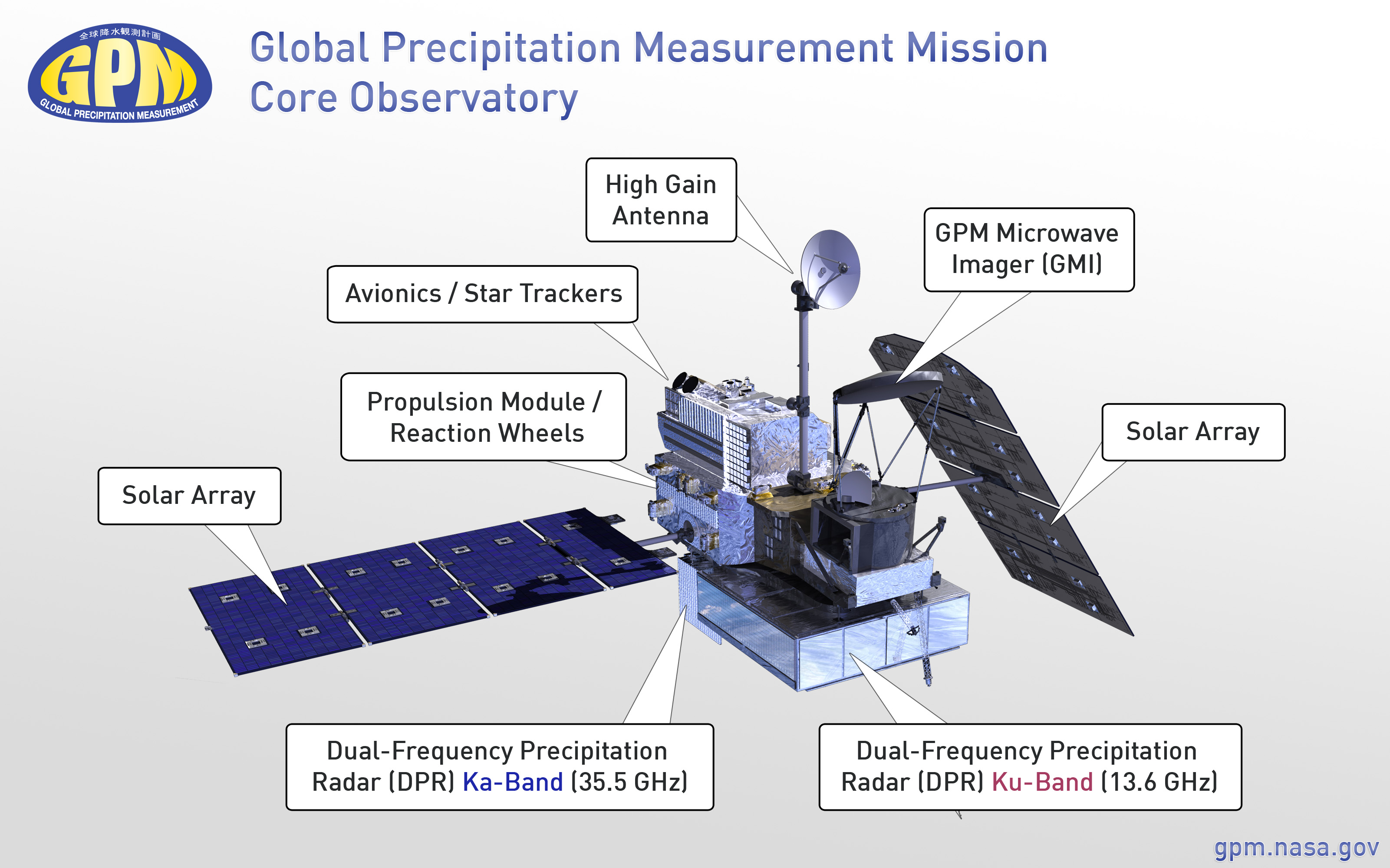 This image labels the major compenents of the GPM Core Observatory, including the GMI, DPR, HGAS, solar panels, and more.